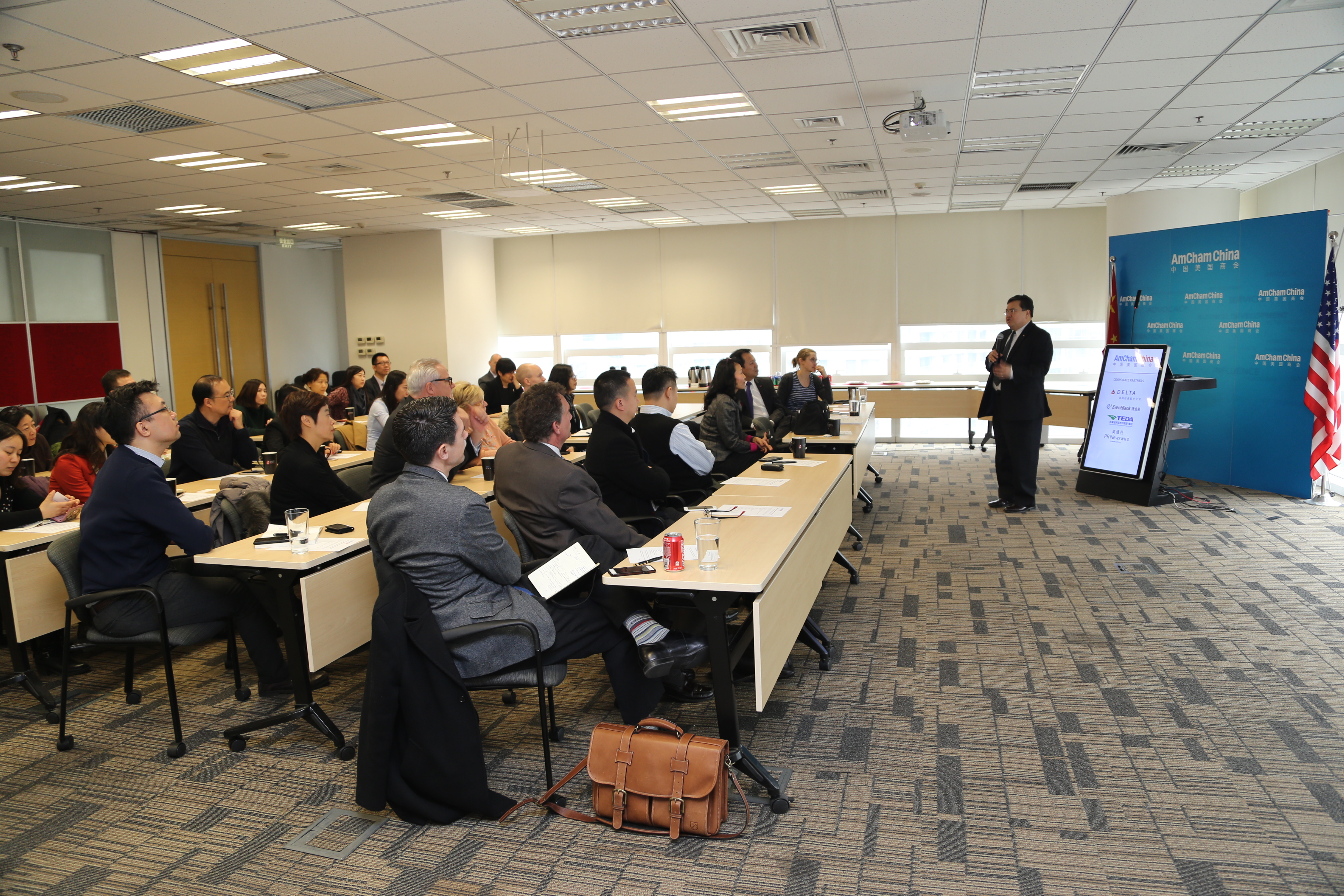 AmCham China Event on Business Sustainability